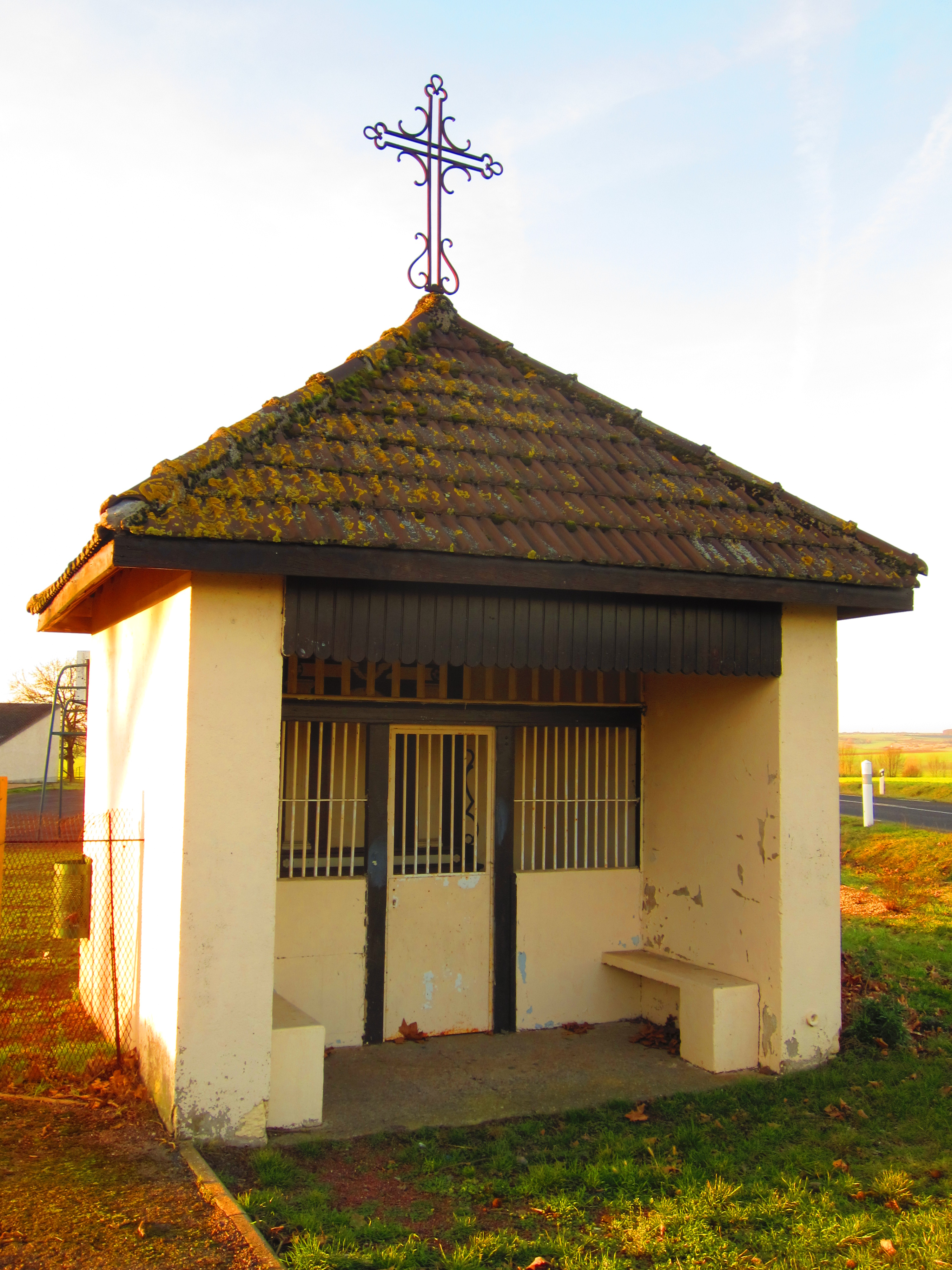 Anoux chapel ste barbe